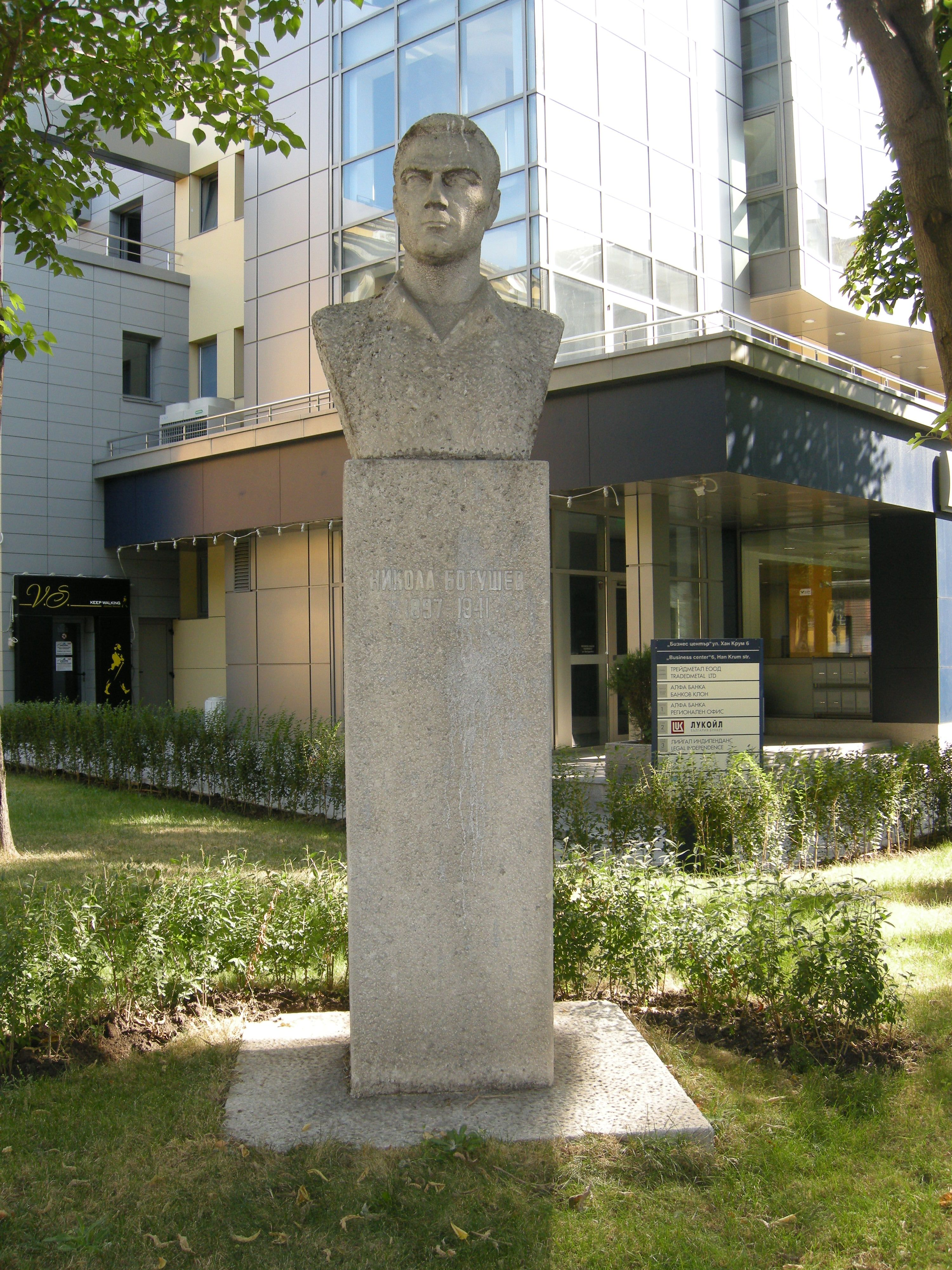 The monument of the Bulgarian communist Nikola Botushev (1897 - 1941) in Burgas, who was sentenced to death and executed for organisation of communistic terroristic groups.